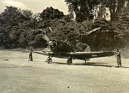 Torokina, Bougainville Island, Solomon Islands. Taxiing out before taking off from a Bougainville jungle strip on a tactical reconnaissance sortie, 432800 Flying Officer Doug Hilliger, Mosman, NSW, with (right) 71826 Leading Aircraftman (LAC) Fred James, West Pennant Hills, NSW and (left) 136569 LAC Phil Dickson, Newcastle, NSW, on the wing tips of his Boomerang aircraft of No. 5 Squadron RAAF, serial no. 228.